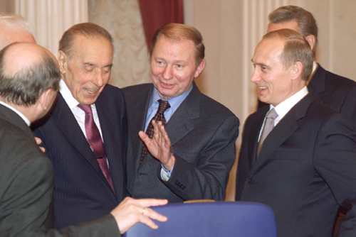 MINSK. President Vladimir Putin with Ukrainian President Leonid Kuchma, in the centre, and Azeri President Heydar Aliyev before an expanded meeting of the CIS Council of Heads of State.